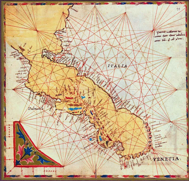 Map of the Adriatic Sea, from the tenth sheet of the 1318 atlas of Genoese cartographer Pietro Vesconte, held (MS 594) by the Österreichische Nationalbibliothek in Vienna, Austria